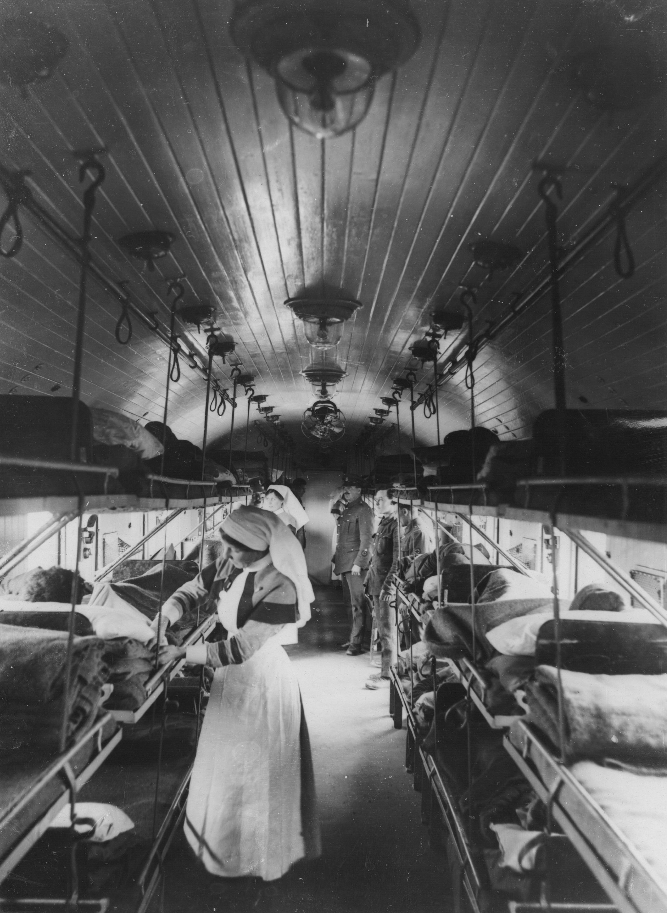 Interior of an ambulance-train ward, France, during World War I. This image is very striking due to the lighting and the tunnel effect of the train carriage, which is emphasised by the parallel lines of the wooden panelling on the roof. Two nurses are busy tending the wounded while two officers survey the scene from the top of the carriage. Ambulance trains were used in the main to transport large groups of soldiers to the French coast so that they could return to England, normally through Dover, for treatment and recuperation. [Original reads: 'OFFICIAL PHOTOGRAPH TAKEN ON THE BRITISH WESTERN FRONT IN FRANCE. Interior of a ward on a British Ambulance Train in France.']